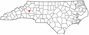 Category:North Carolina Dot Maps